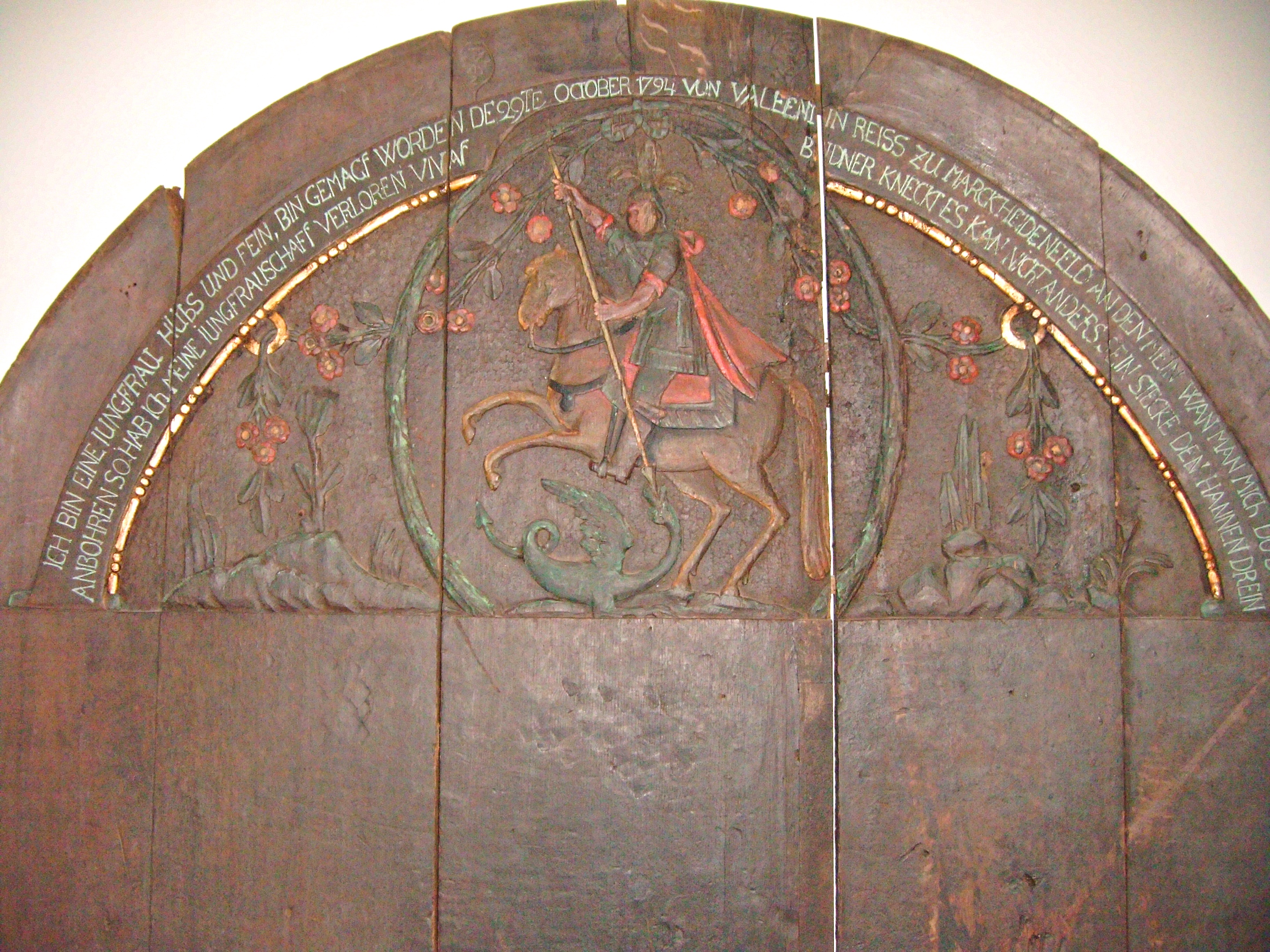 Fassboden mit Bild des Hl. Georg, gefertigt von Küfer Johann Valentin Reuss (1761-1800), aus Marktheidenfeld, 1794